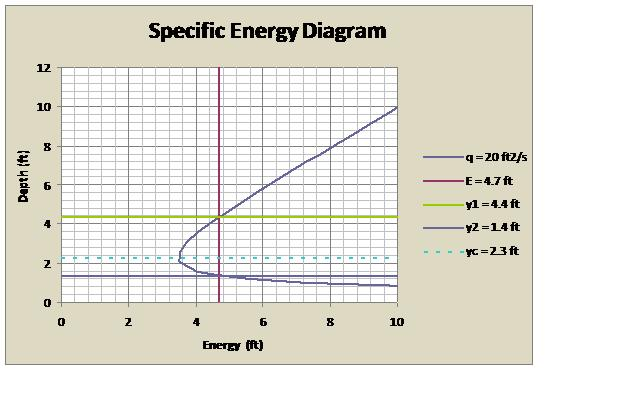 E-Y diagram (Open channel flow)